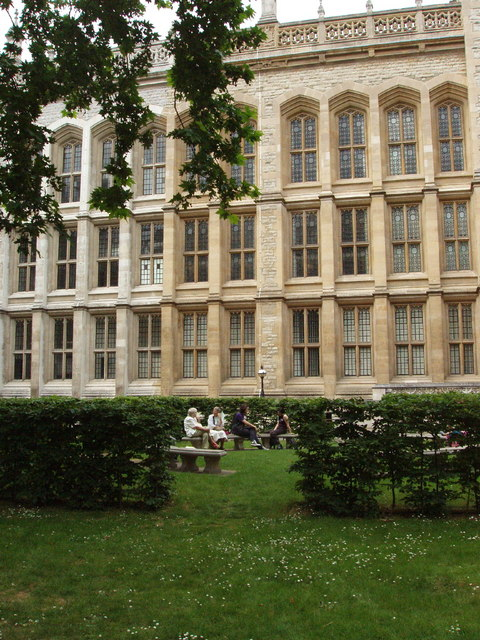 Maughan Library of King's College London. This building in Chancery Lane was the Public Record Office. It is now the Maughan Library and Information Services Centre of King's College London. The garden participated in Open Garden Squares Weekend. As the building originally had small separate rooms with fireproof doors and partitions, the garden has been laid out with small areas separated with hedges to echo that layout.